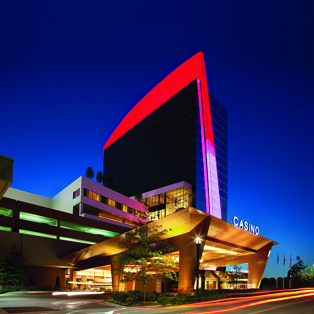 Camera Canon EOS 5D Mark II Exposure 8 Aperture f/16.0 Focal Length 24 mm ISO Speed 200 Exposure Bias 0 EV Flash Off, Did not fire X-Resolution 150 dpi Y-Resolution 150 dpi Image Width 6152 Image Height 6152 Bits Per Sample 8 8 8 8 Compression Uncompressed Photometric Interpretation CMYK Orientation Horizontal (normal) Samples Per Pixel 4 Planar Configuration Chunky Software Adobe Photoshop CS3 Macintosh